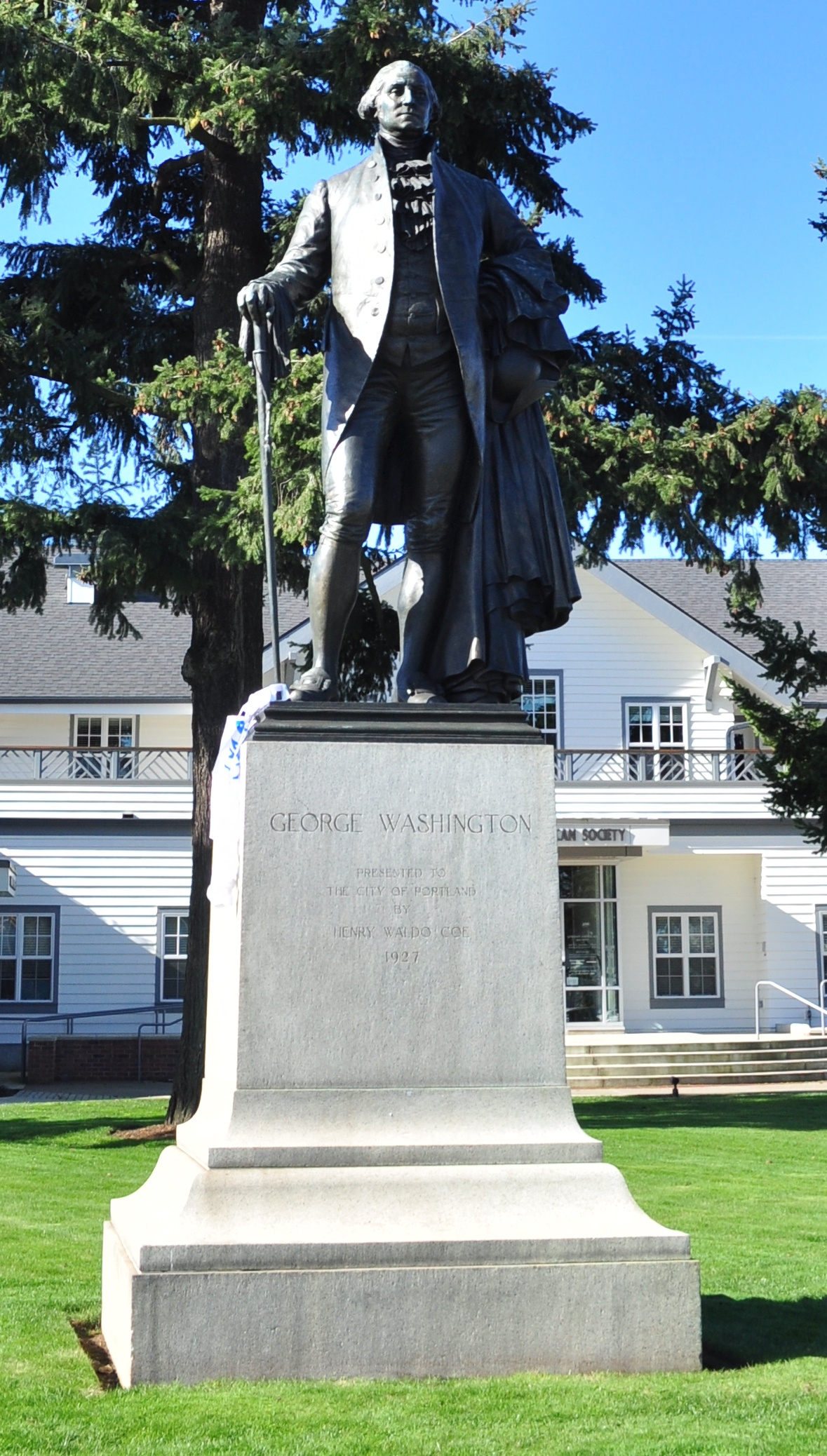 George Washington statue and (in background) German-American Society building, 57th and Sandy, Portland, Oregon, U.S. This is pretty much exactly the border between the Rose City Park and Hollywood neighborhoods.